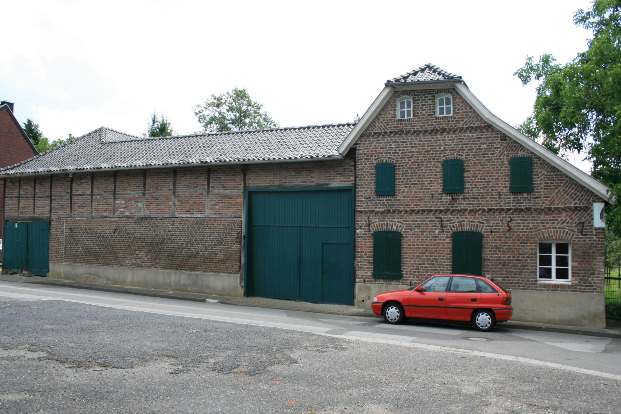 Cultural heritage monument No. Z 003 in Mönchengladbach